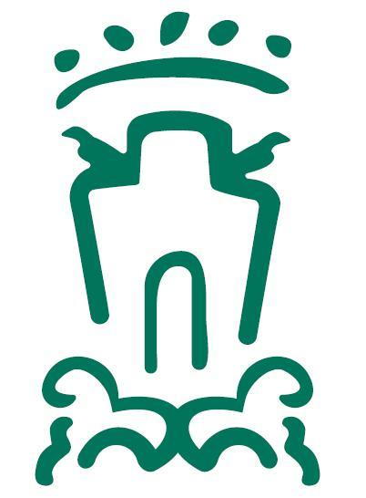 Logotipo Ayuntamiento Vitoria-Gasteiz